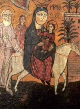 Flight into Egypt (coptic icon from the Church of Saints Sergius and Bacchus (Abu Serga) in Cairo)